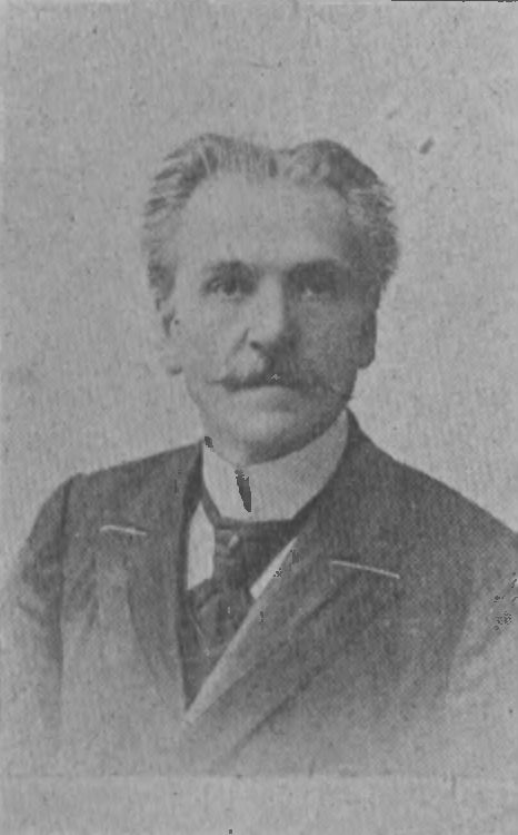 adwokat, poseł